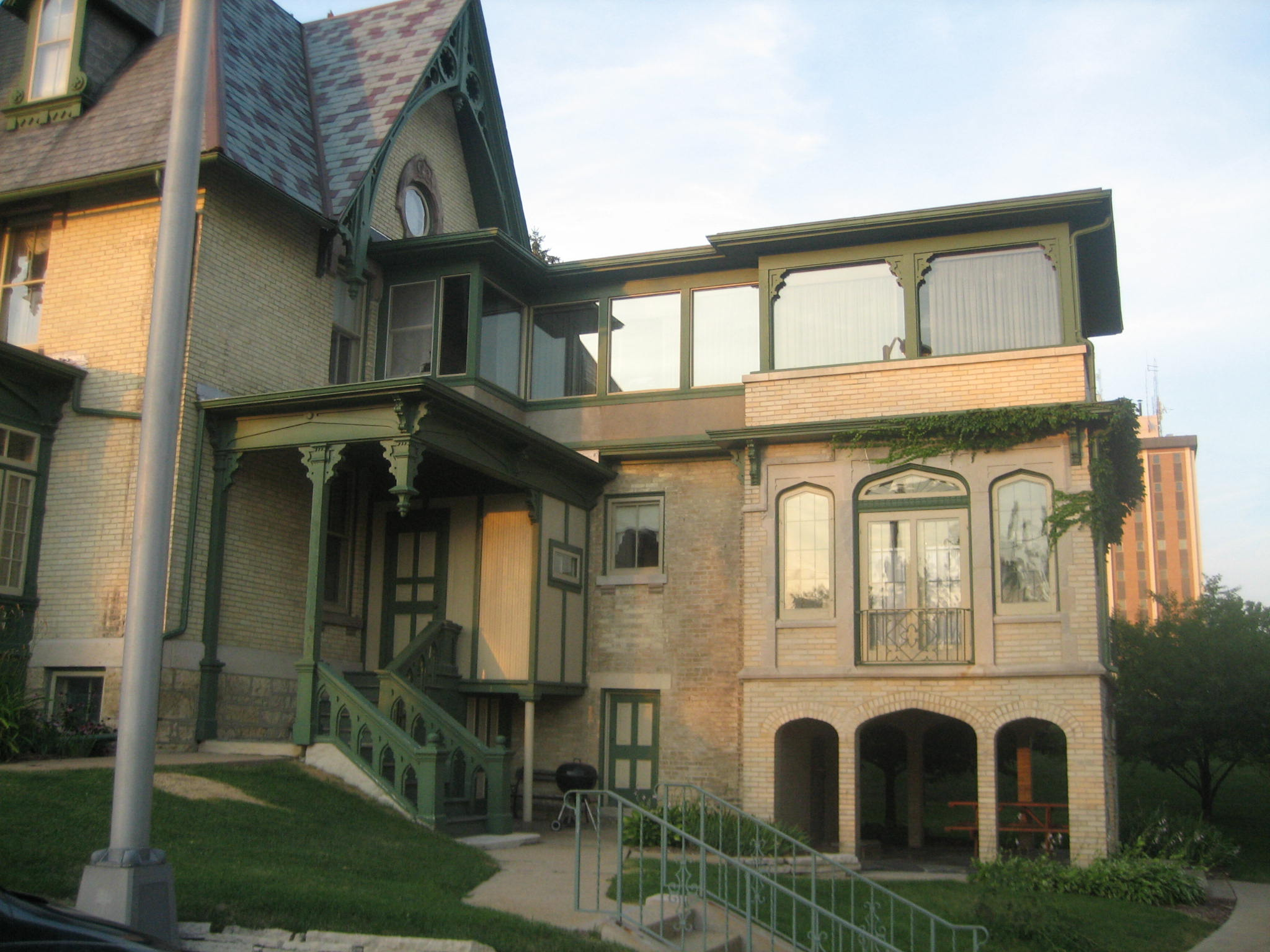 Lake-Peterson House, Rockford, Illinois, United States. U.S. National Register of Historic Places.